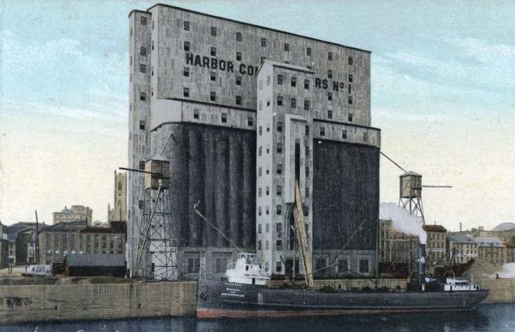 Print (photomechanical), Grain elevator, Port of Montreal, QC, about 1910, Coloured ink on paper mounted on card - Photolithography - 8.8 x 13.8 cm